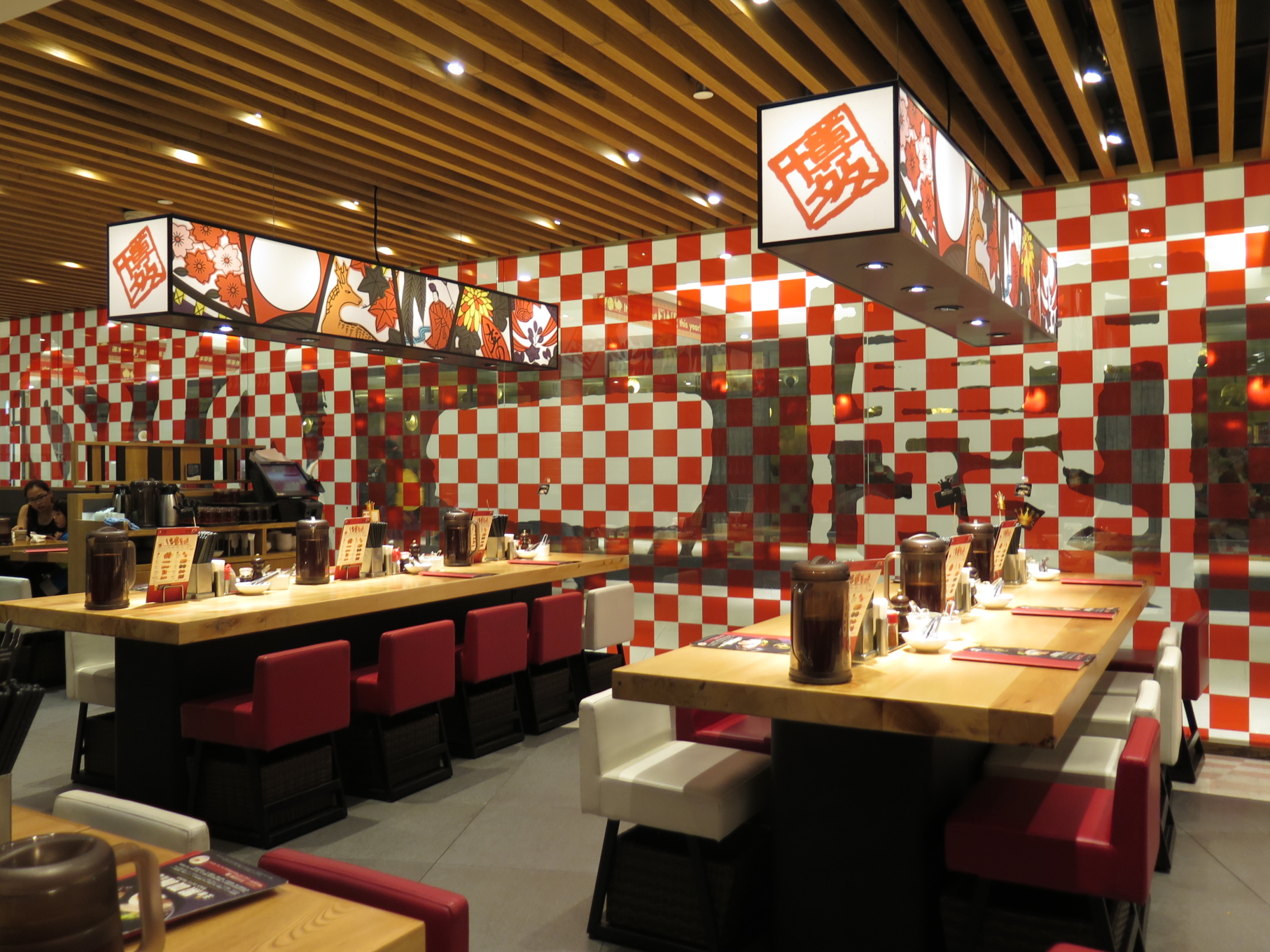 IPPUDO Queensway Plaza Interior